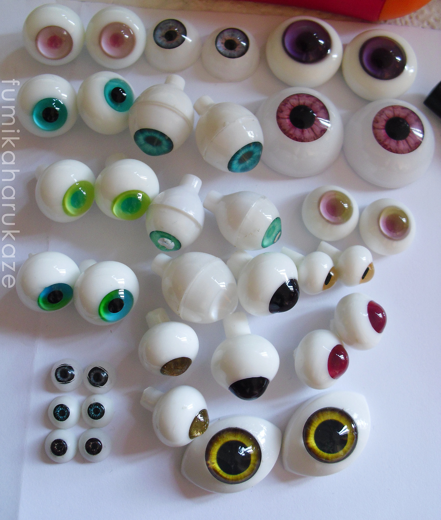 Eyes for ball-jointed dolls